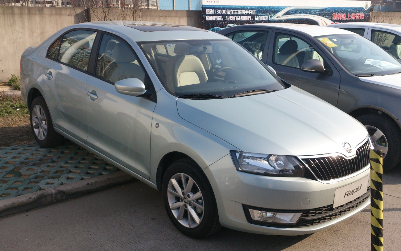 Škoda Rapid CN photographed in Shanghai, China.